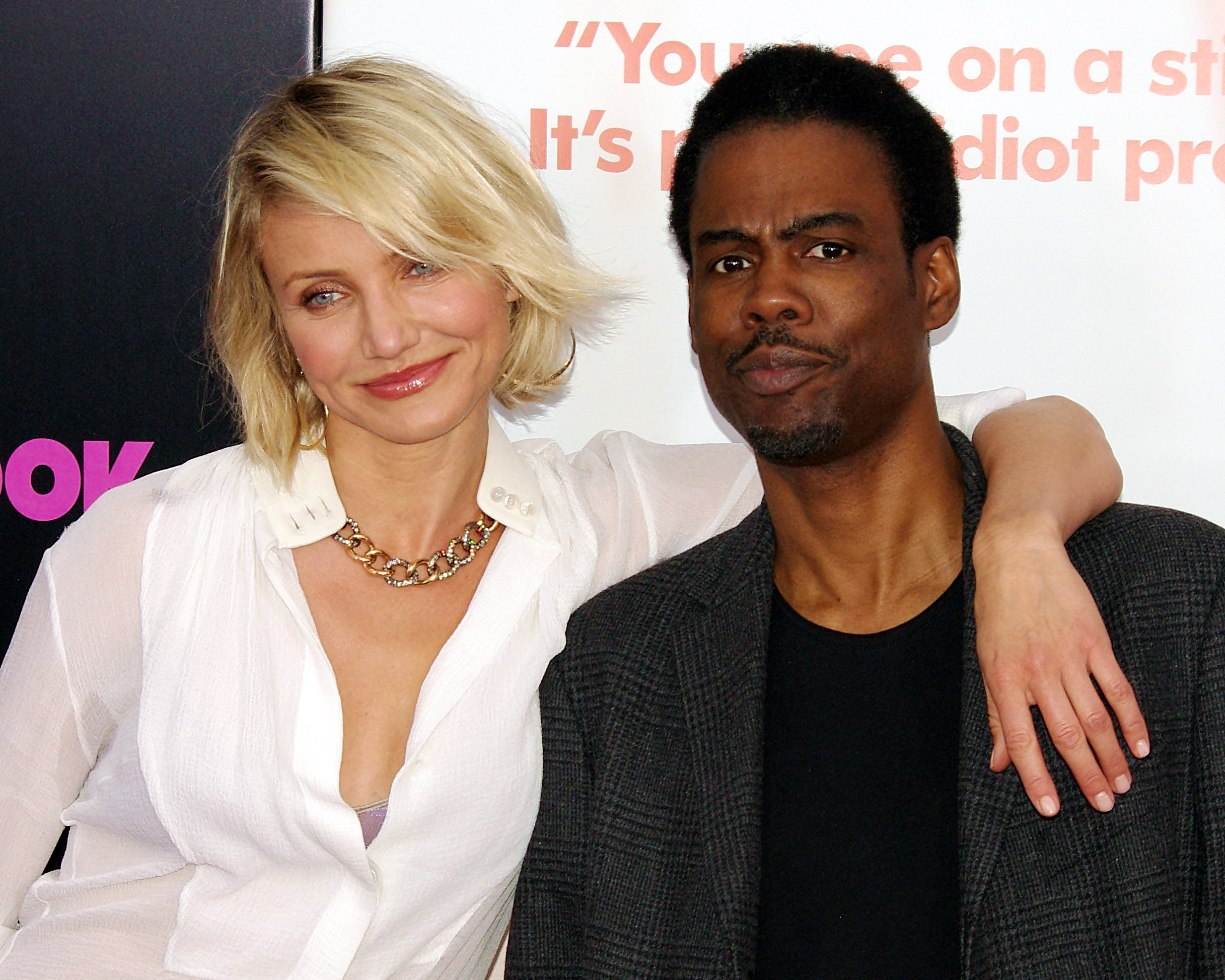 Cameron Diaz and Chris Rock at the 2012 premiere of What to Expect When You're Expecting in New York